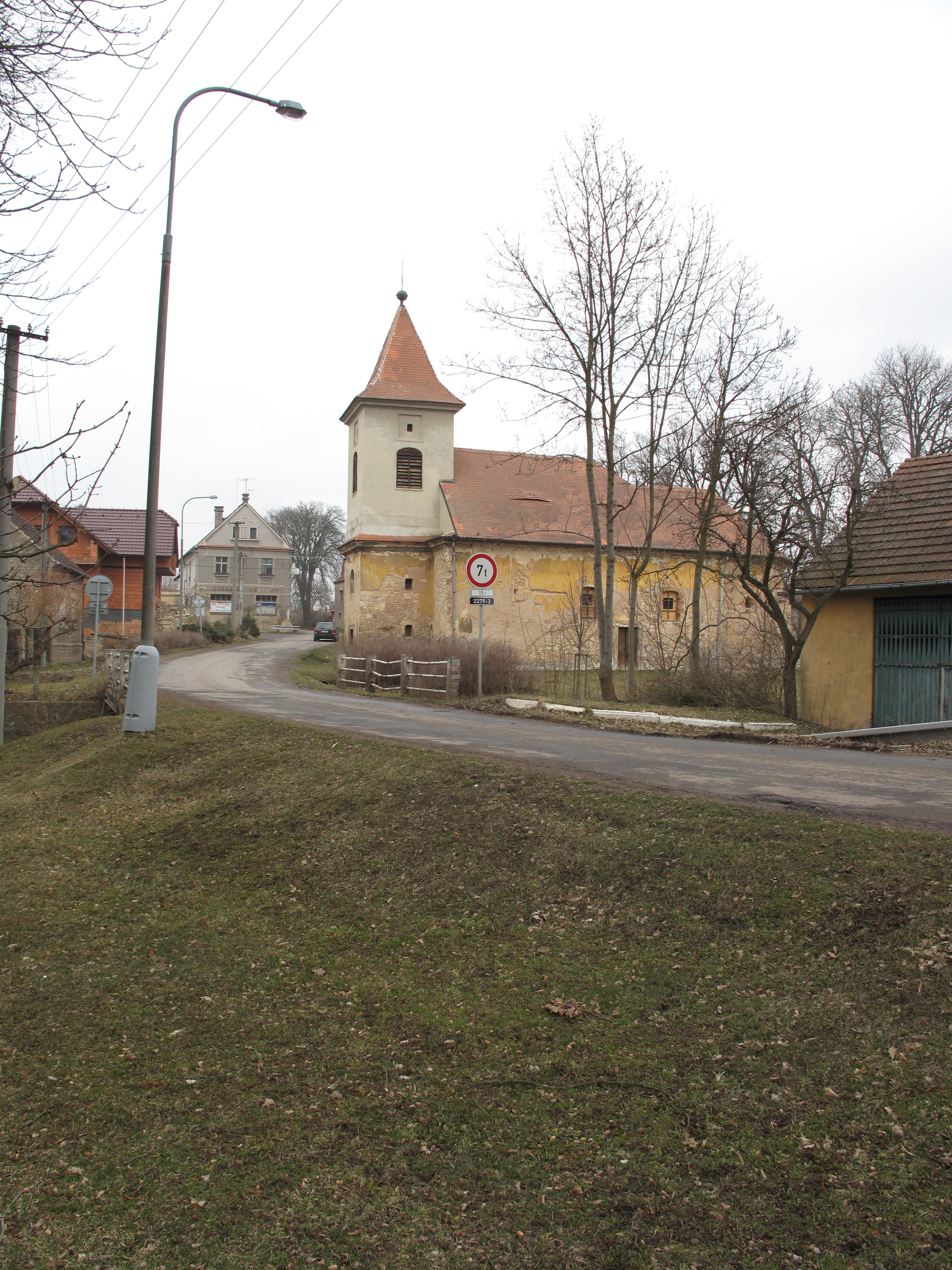 Church of St. Margaret in Nesuchyně village, Rakovník District, Czech Republic.